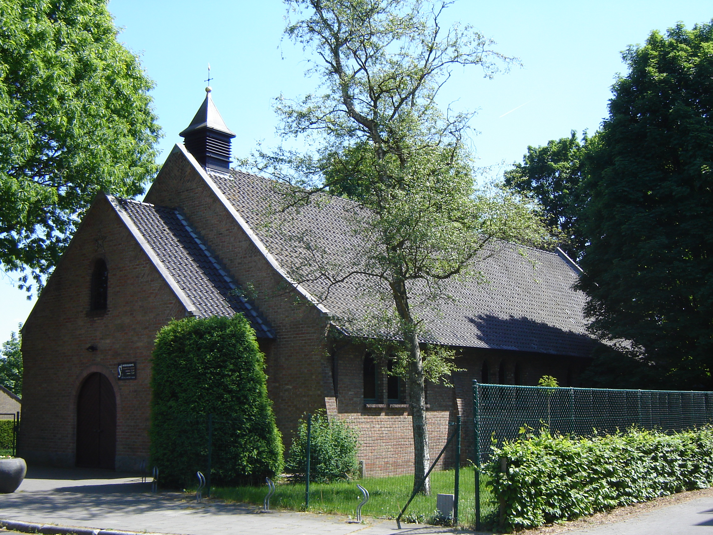 Church of Saint Godelina in Wondelgem. Wondelgem, Gent, East Flanders, Belgium